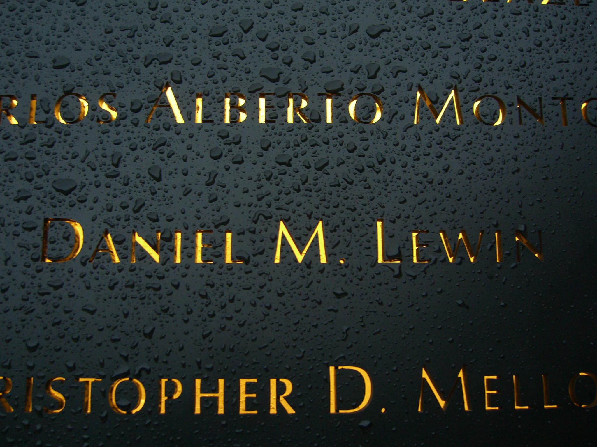 The name of Daniel M. Lewin is seen with those of other 9/11 victims from American Airlines Flight 11, inscribed on bronze panel N-75 of the North Pool of the National September 11 Memorial in Manhattan, as seen on December 6, 2011. This photo was created by Luigi Novi. If you have any questions, you can contact me by sending me an email or User talk:Nightscream